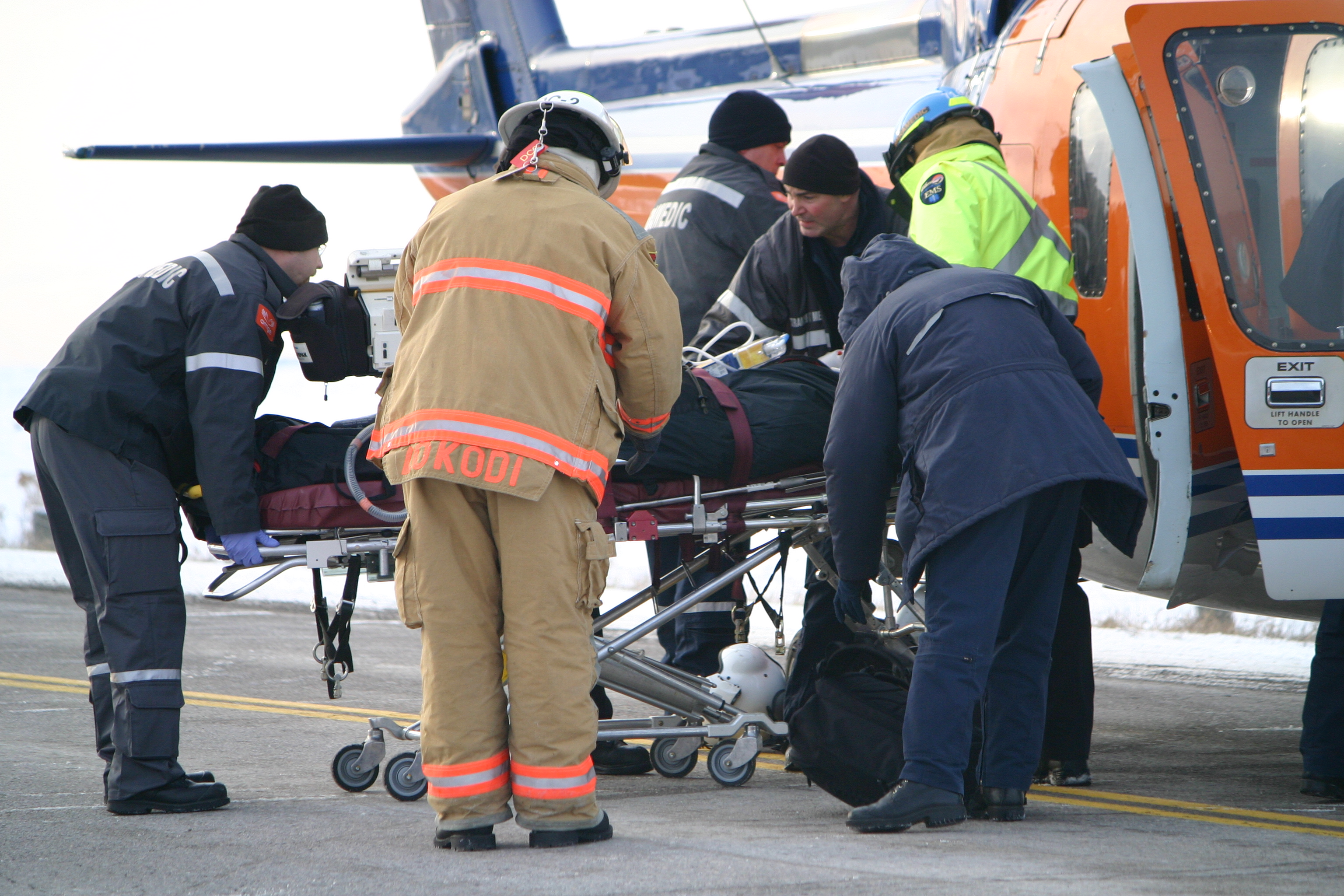 A woman is loaded into an air ambulance that landed on Ski Hill Rd. after a head-on crash near Lifford Rd. on Thursday, Jan. 6, 2011. She was flown to Toronto's Sunnybrook hospital with serious, life-threatening injuries. Another woman was also airlifted to the same hospital with serious injuries.